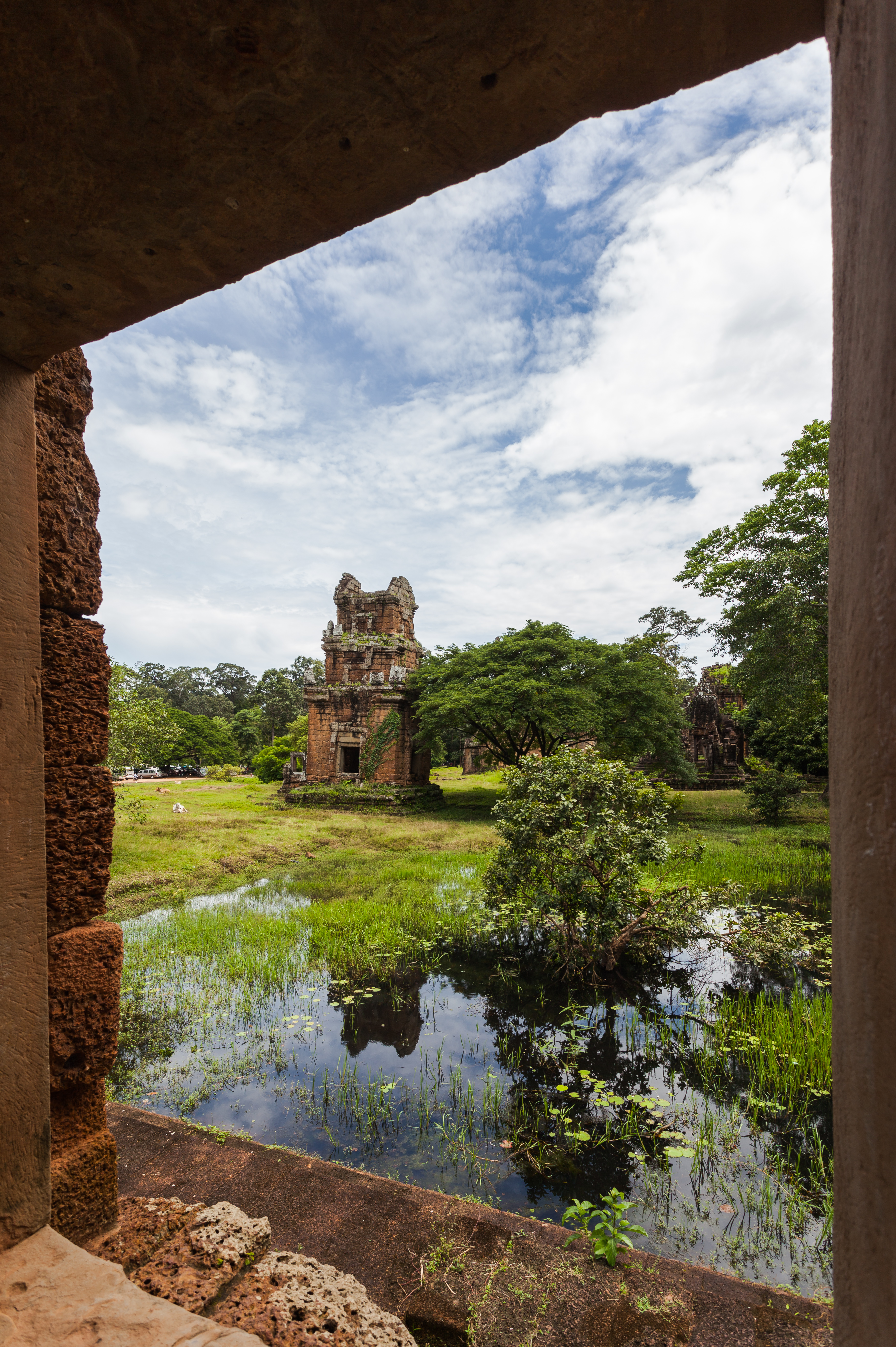 Prasat Suor Prat, Angkor Thom, Cambodia